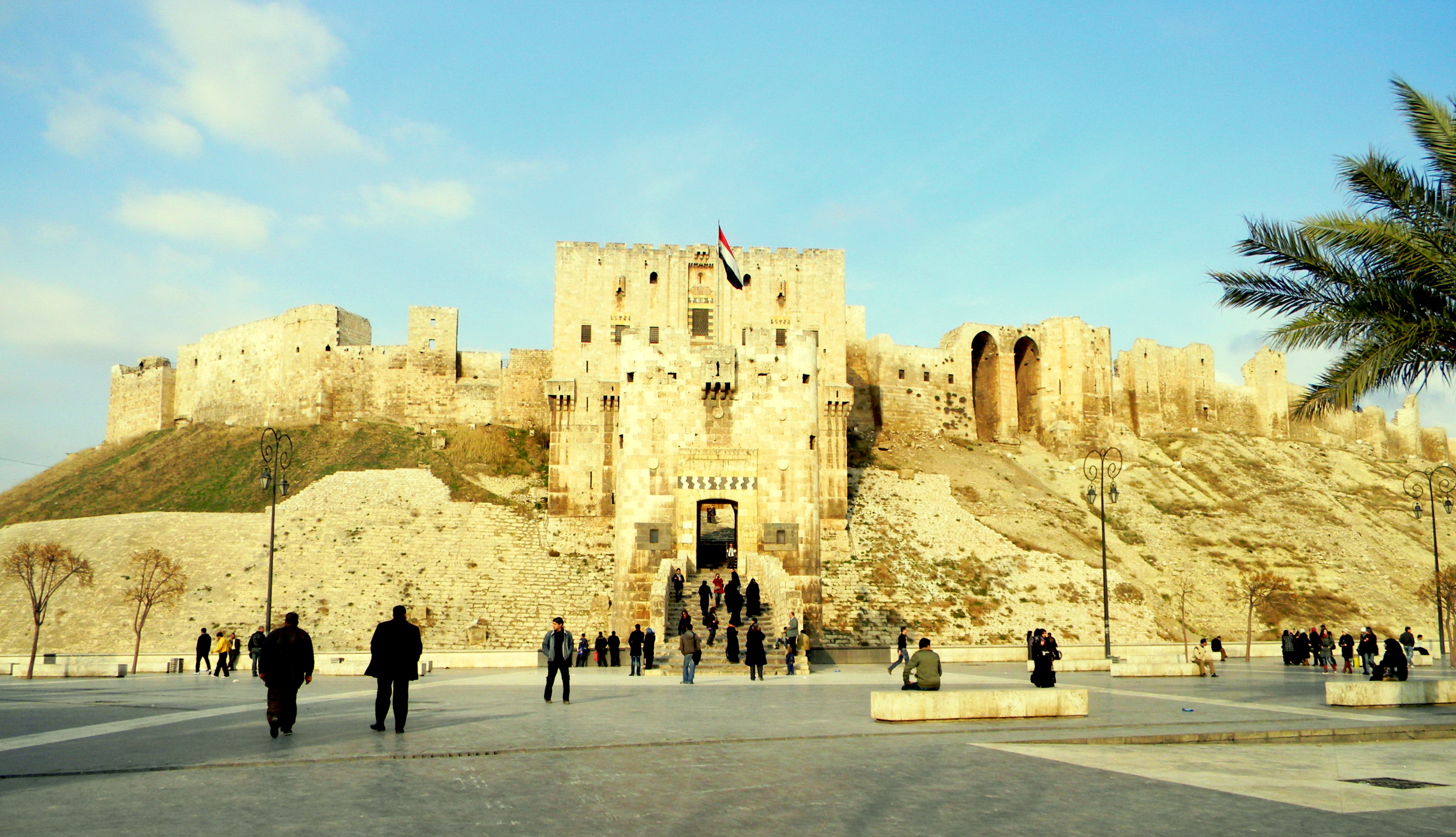 Aleppo Citadel